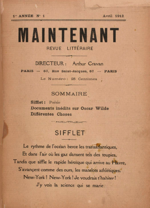 Front cover of Maintenant [Now], a literature periodical printed in Paris. Issue 01, April 1912.